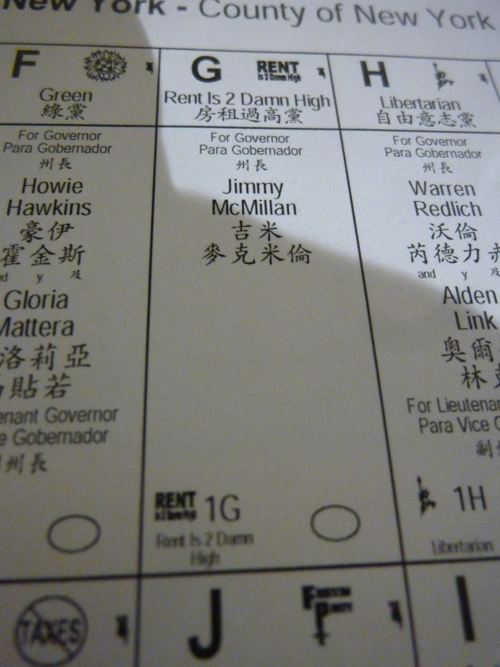 Picture, close up of Jimmy McMillan on the ballot for the New York City 2010 gubernatorial election